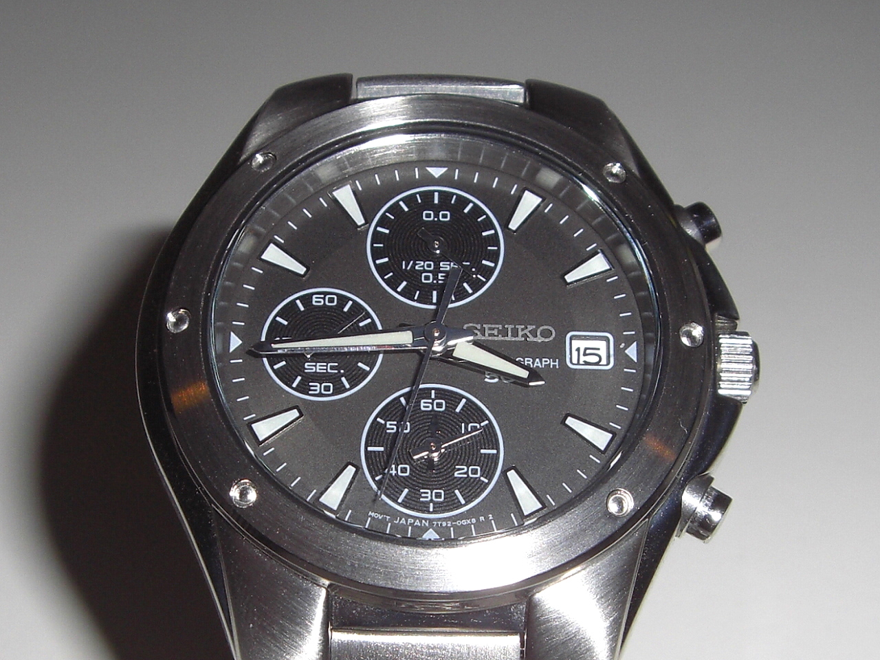 Seiko SND555P1 Chronograph.